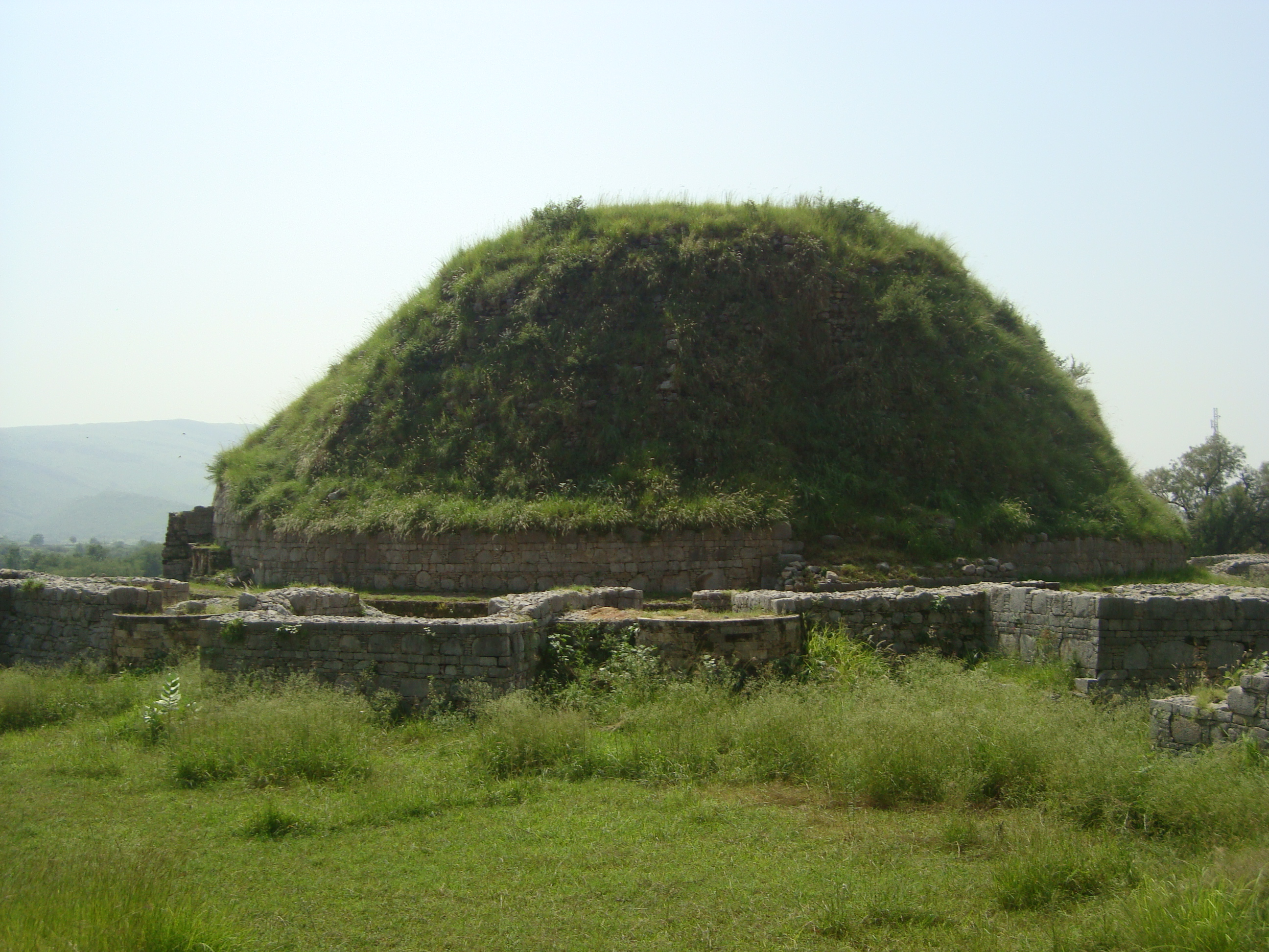 Dharmarajika stupa and monastery This is a photo of a monument in Pakistan identified as the PB-127